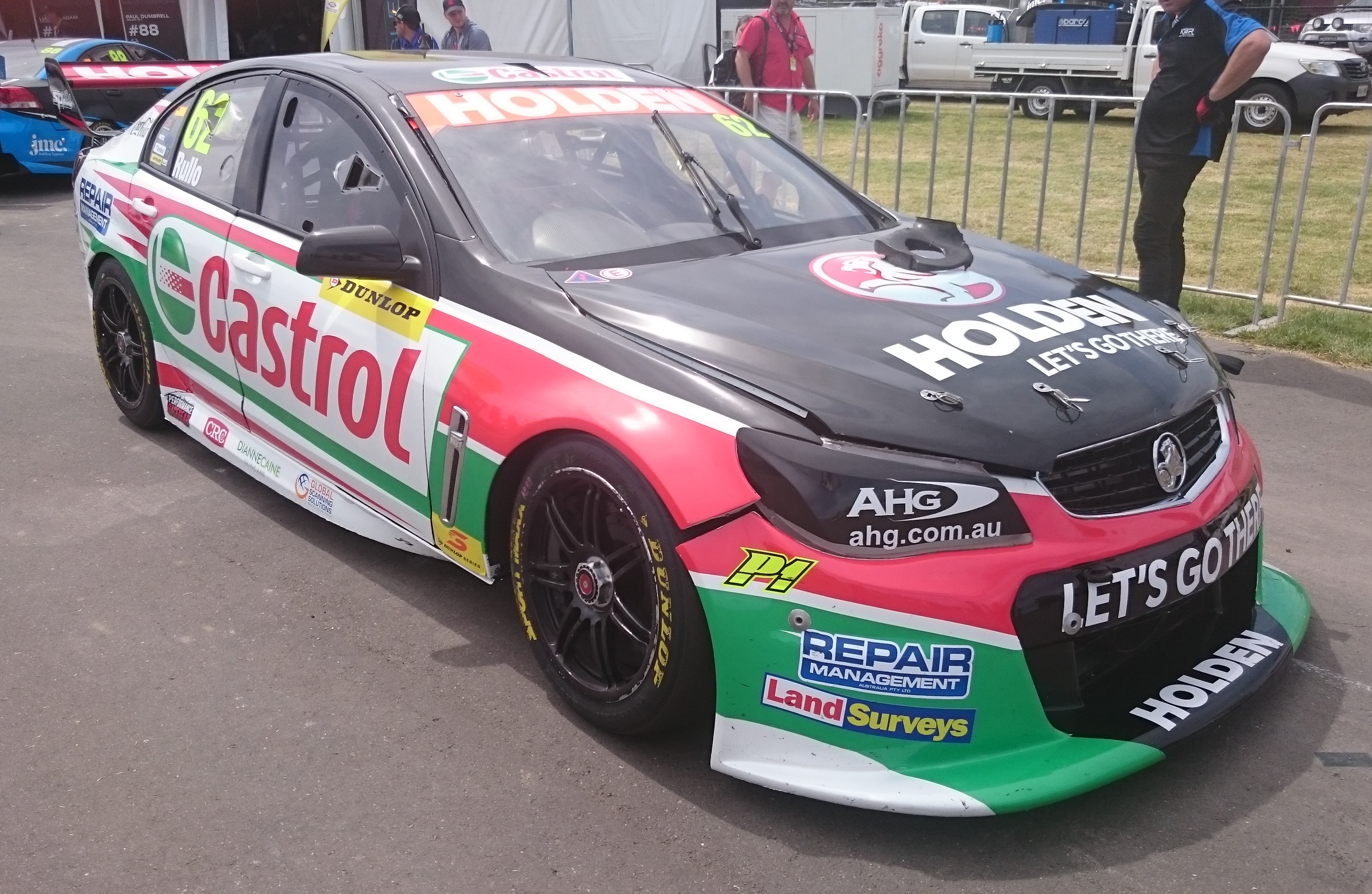 Holden VF Commodore of Alex Rullo, Round 1, 2016 Dunlop Series, Adelaide Parklands Circuit.